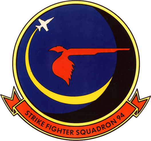 Insignia of the U.S. Navy Strike Fighter Squadron 94 (VFA-94) "Mighty Shirkes".